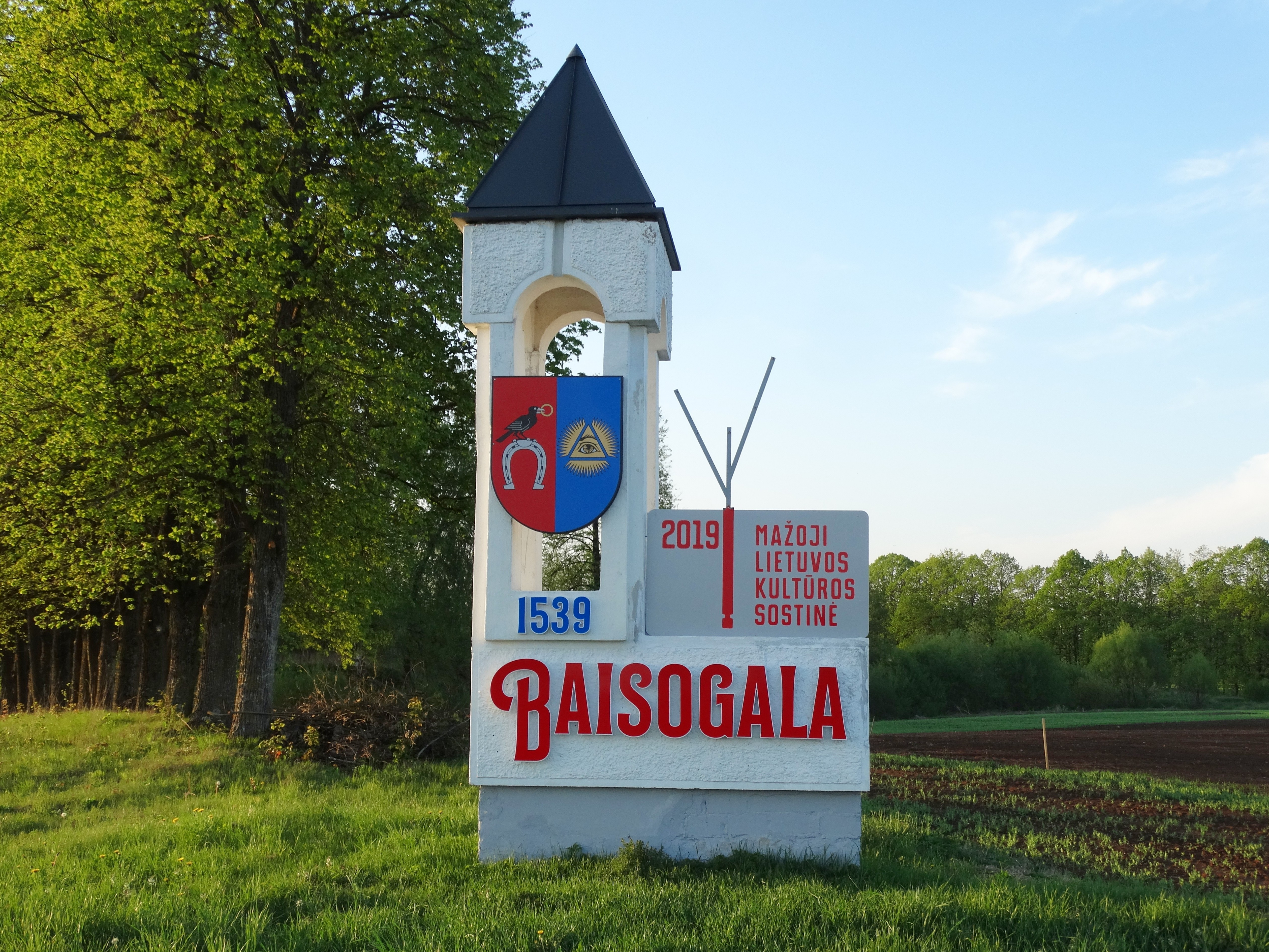 Baisogala, 2019 cultural capital, Radviliškis district, Lithuania